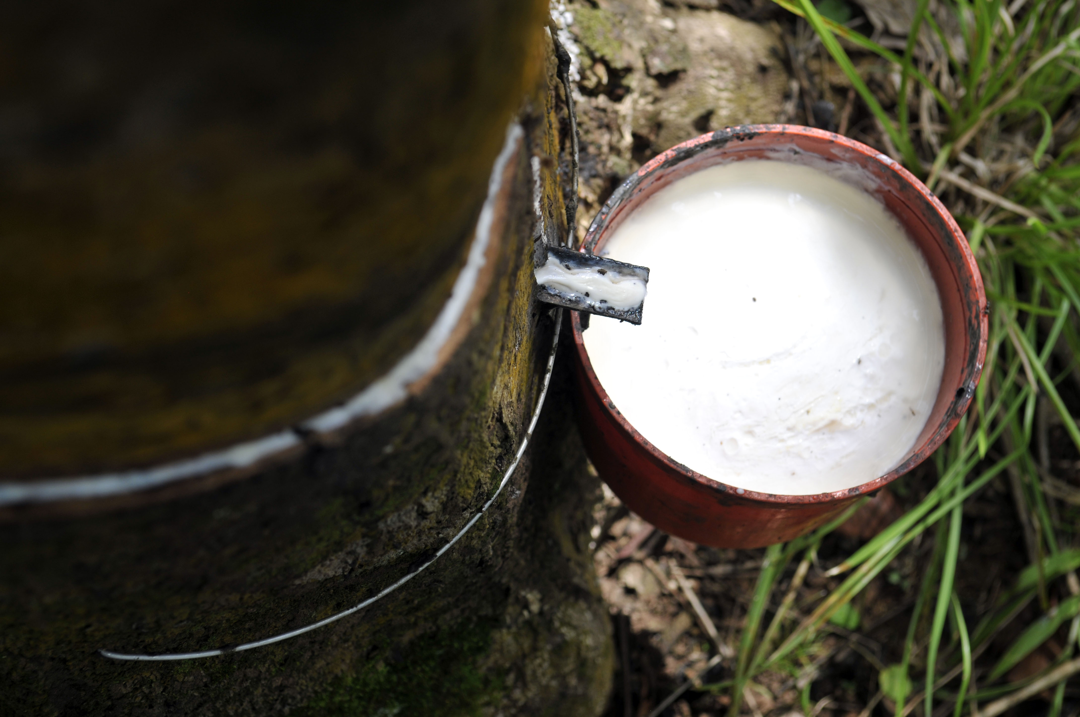 Pic by Neil Palmer (CIAT). Rubber tapping in Colombia's eastern plains, or Llanos